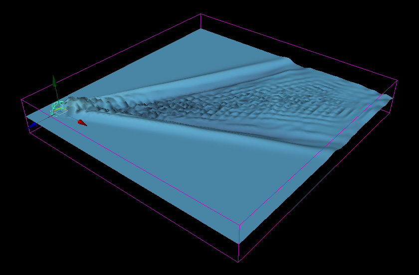 Simulation of a wake in a pond, computer generated in a 3D animation package.